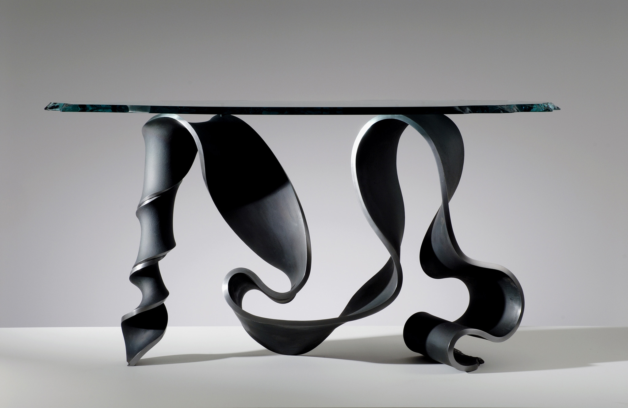 Saddle, Danny Lane, 2006, Glass, steel